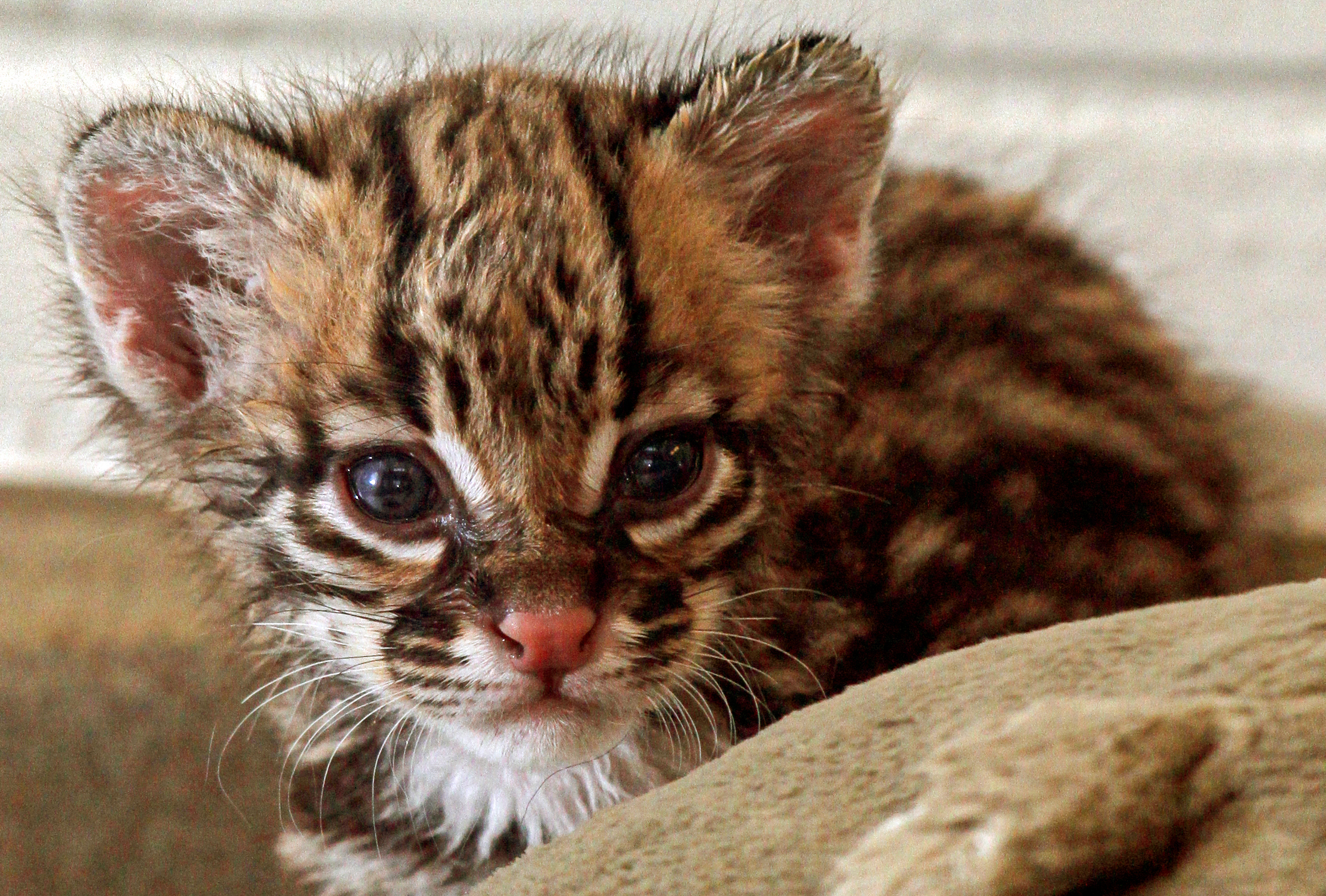 An ocelot baby (Leopardus pardalis).